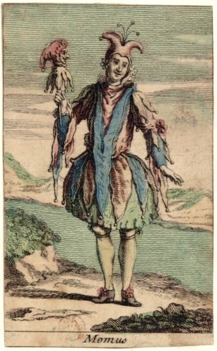 "The Fool" (Momus) from an 18th century minchiate playing card deck